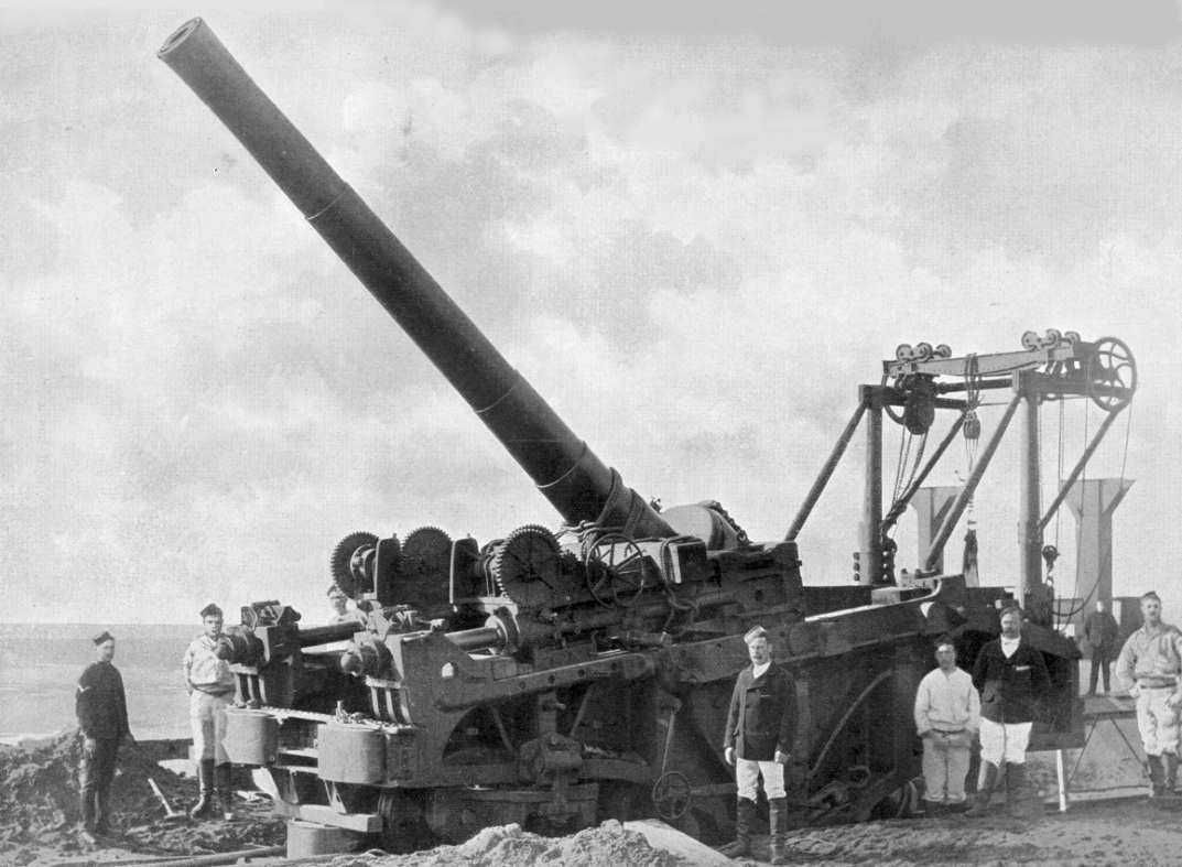 Photograph of early British BL 9.2 inch gun, believed to be Mk IV, on improvised high-angle mounting. Appears to be a rail-mounted proof sleigh. This gun and mounting was used to fire the Jubilee Shot to celebrate HM Queen Victoria's golden jubilee in 1887. The round fired travelled 21,203 yards.